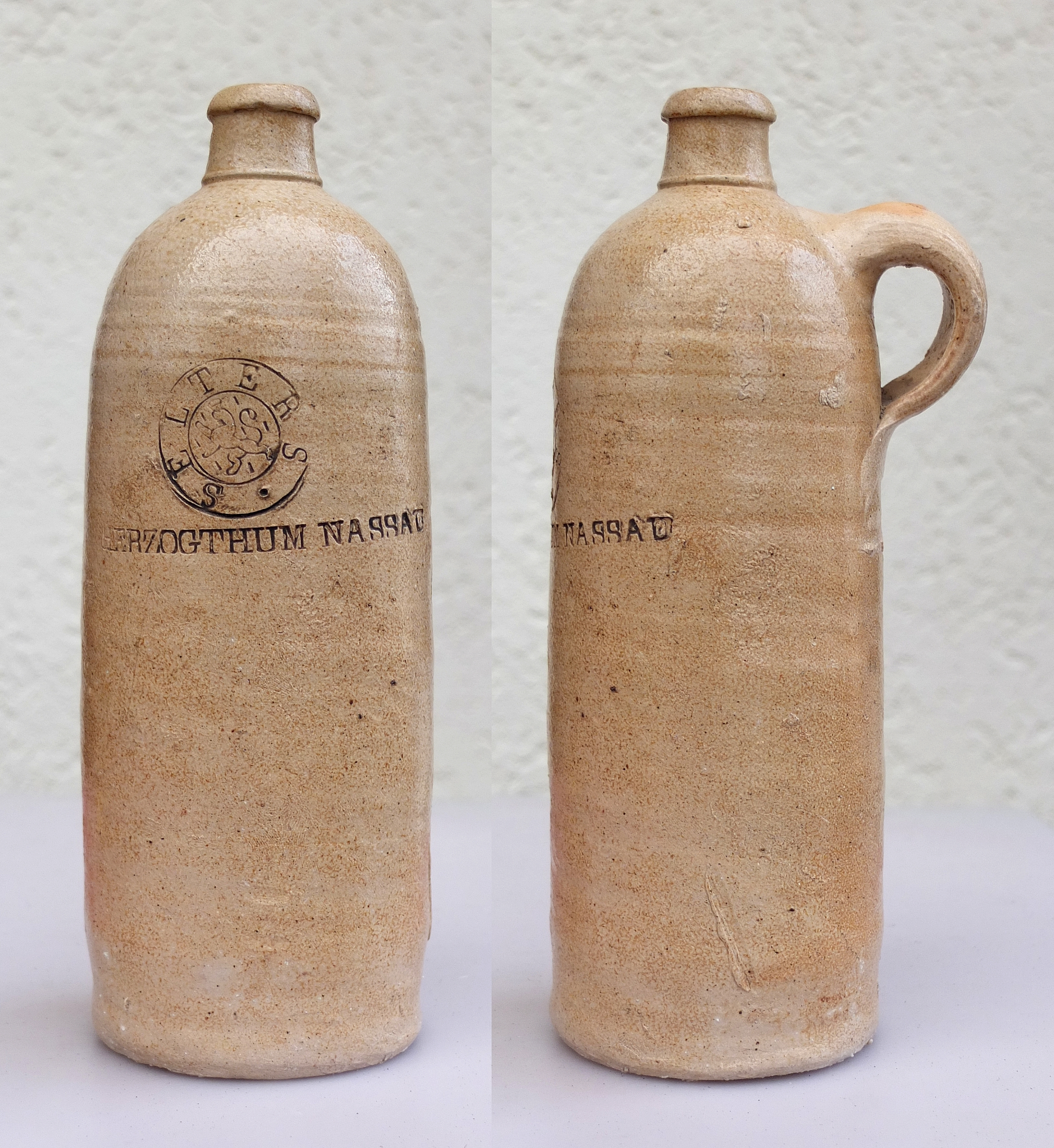 Selters Stoneware mineral water bottle (19th century)